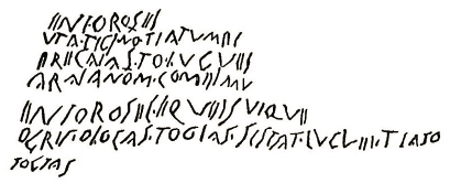 Rock inscription of Peñalba de Villastar (wrtten in Latin alphabet), after W. Meid (1994): Celtiberian Inscriptions, p.30